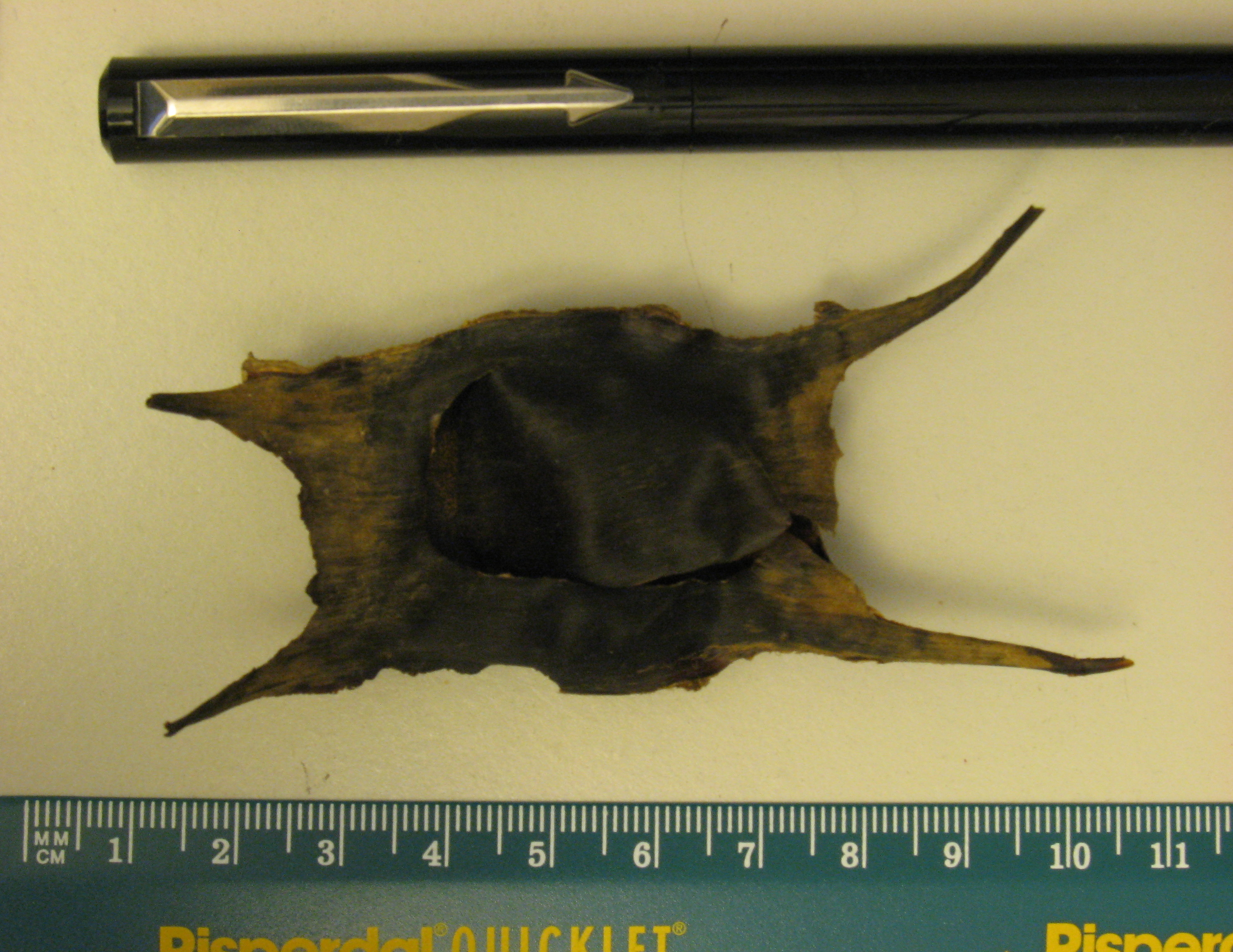 A Mermaid's Purse found on a beach in Herne Bay, UK. This is the eggcase of a skate (fish) or ray, a Raja species, probably Raja clavata. The eggcase of a dogfish or small shark looks quite different, see [1]